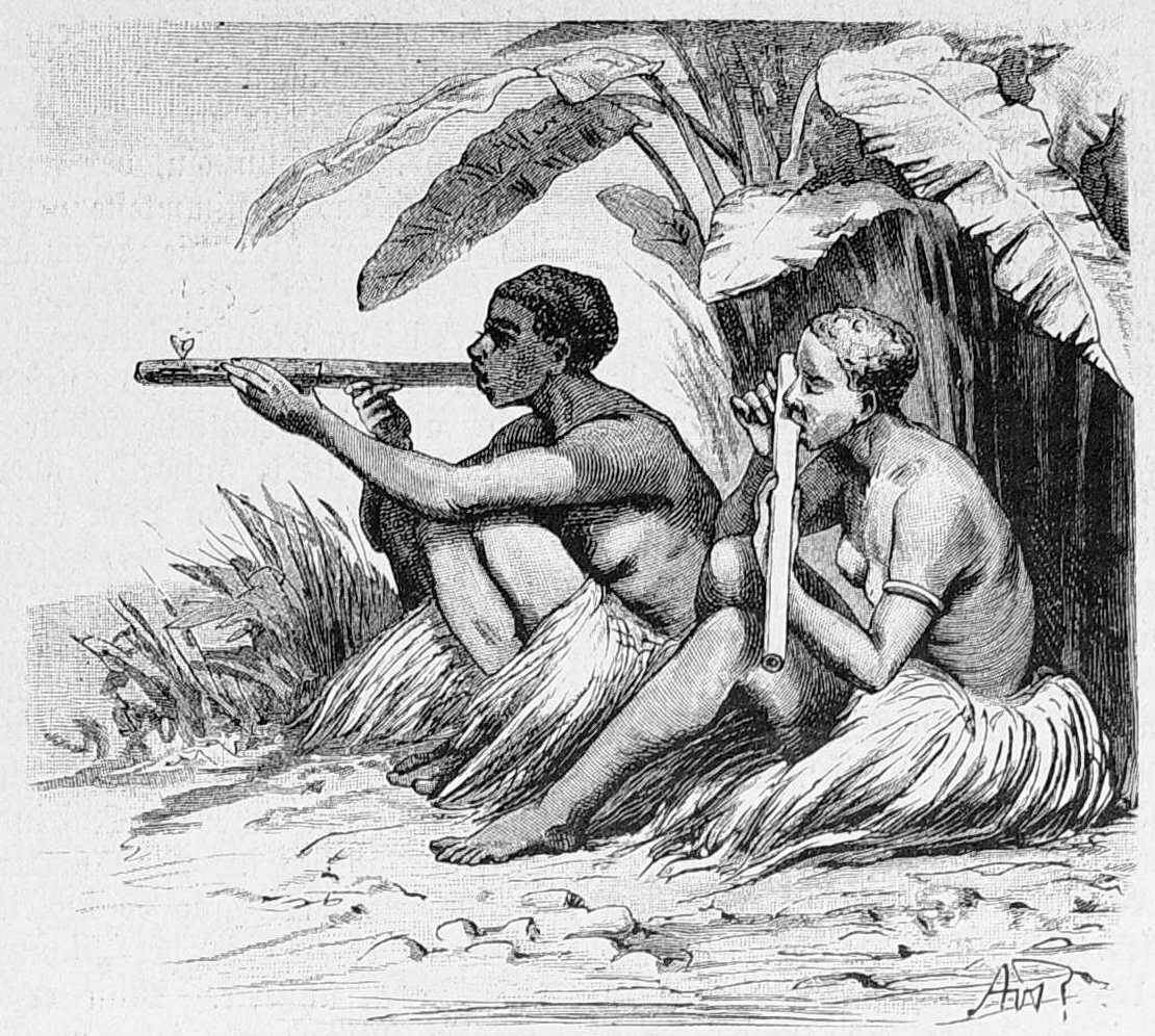 no caption